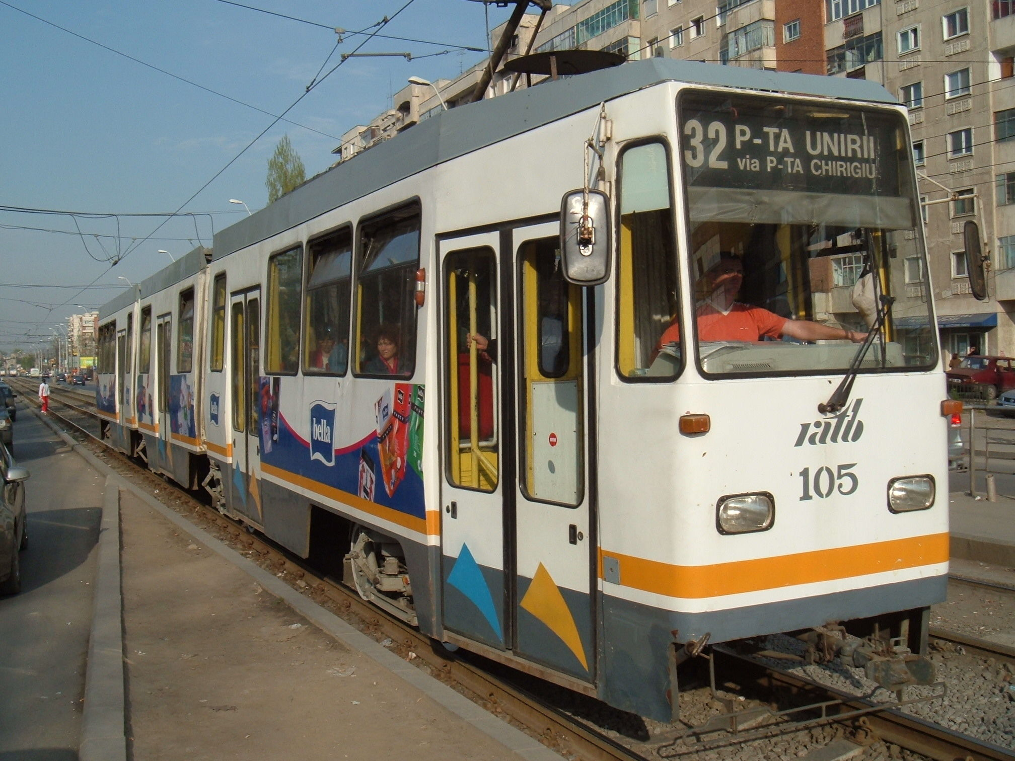 Tram in Bucharest, Romania (V3A-93M-FAUR type). RATB București company.